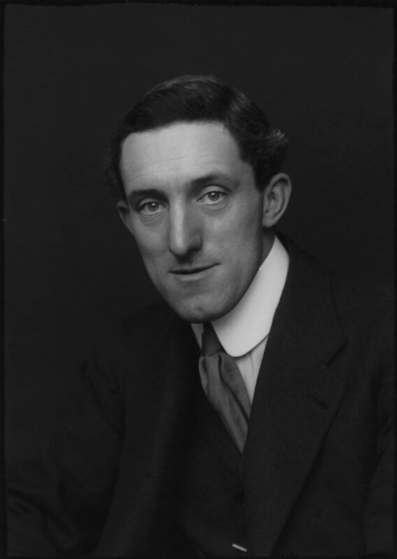 Portrait of Sardu: Percy Bates (1879–1946), English shipowner.